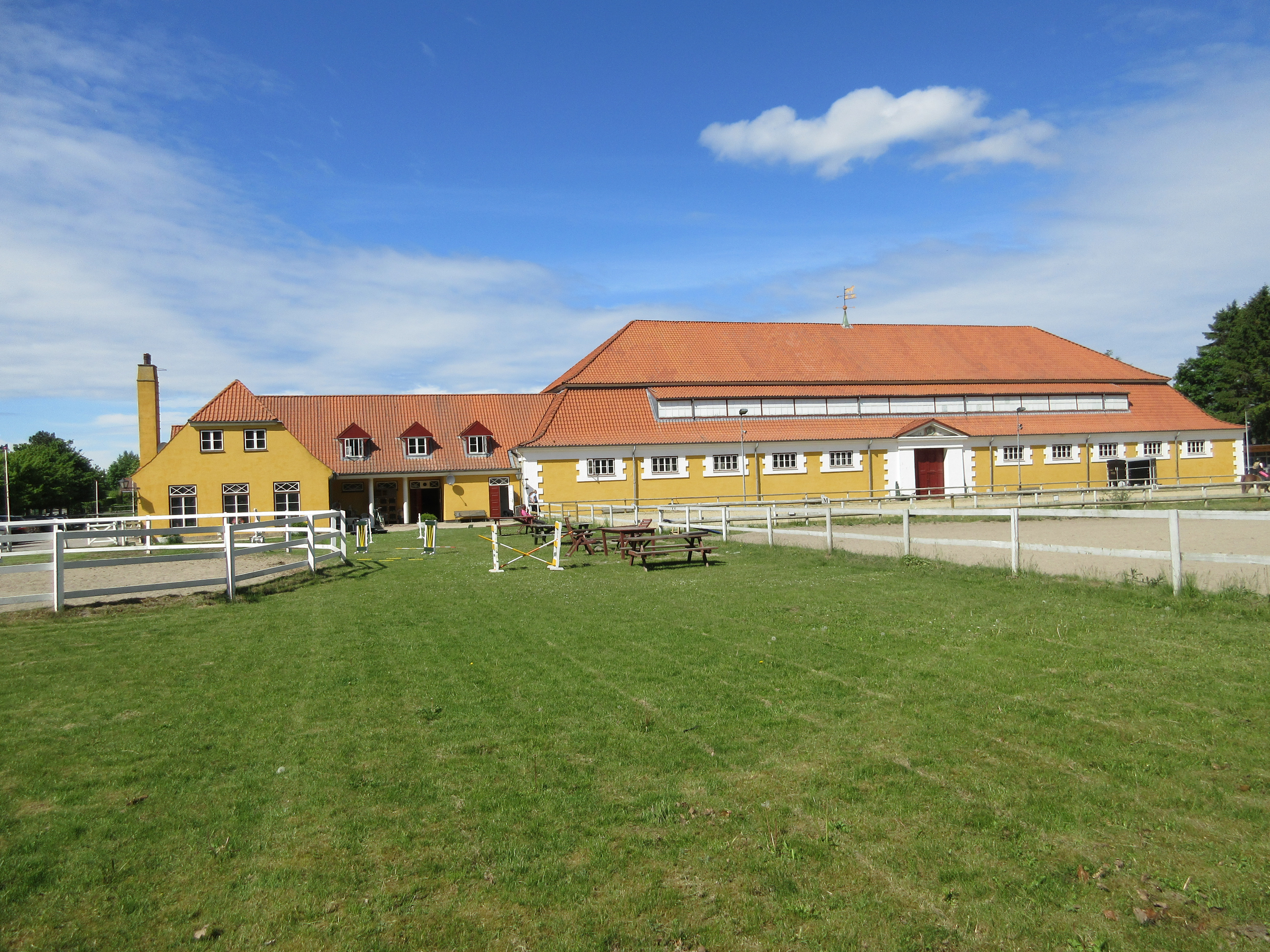 Hørsholm Ridehus in Hørsholm, Denmark